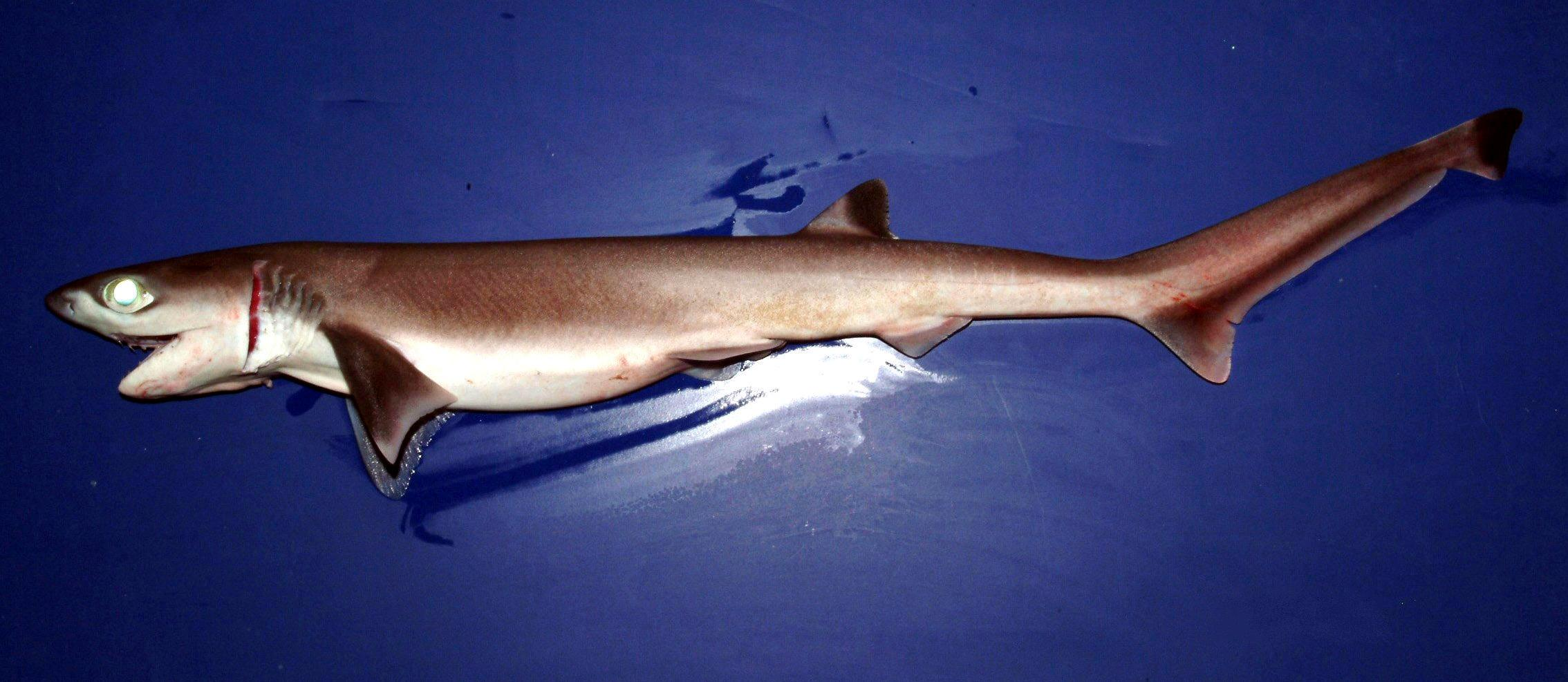 Sharpnose sevengill shark ( Heptranchias perlo ) Image ID: fish4278, NOAA's Fisheries Collection Location: Gulf of Mexico Credit: SEFSC Pascagoula Laboratory; Collection of Brandi Noble, NOAA/NMFS/SEFSC